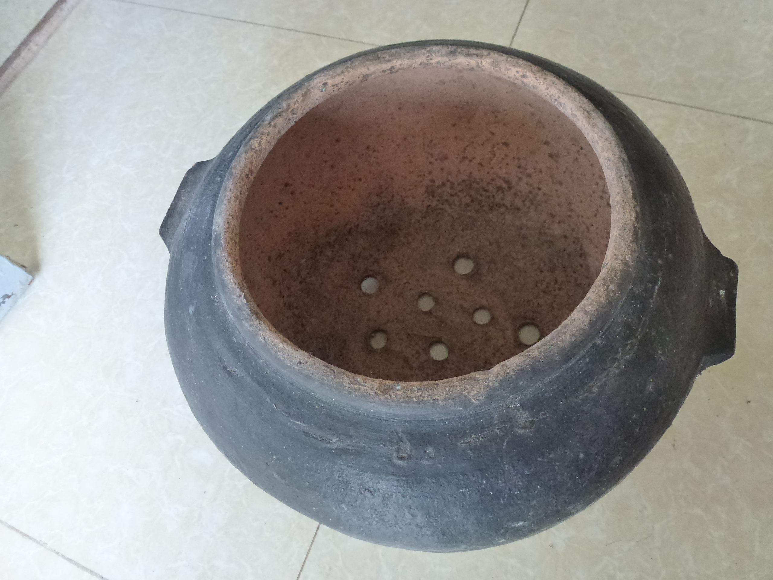 Traditional xôi cooker 1 - Viet Nam